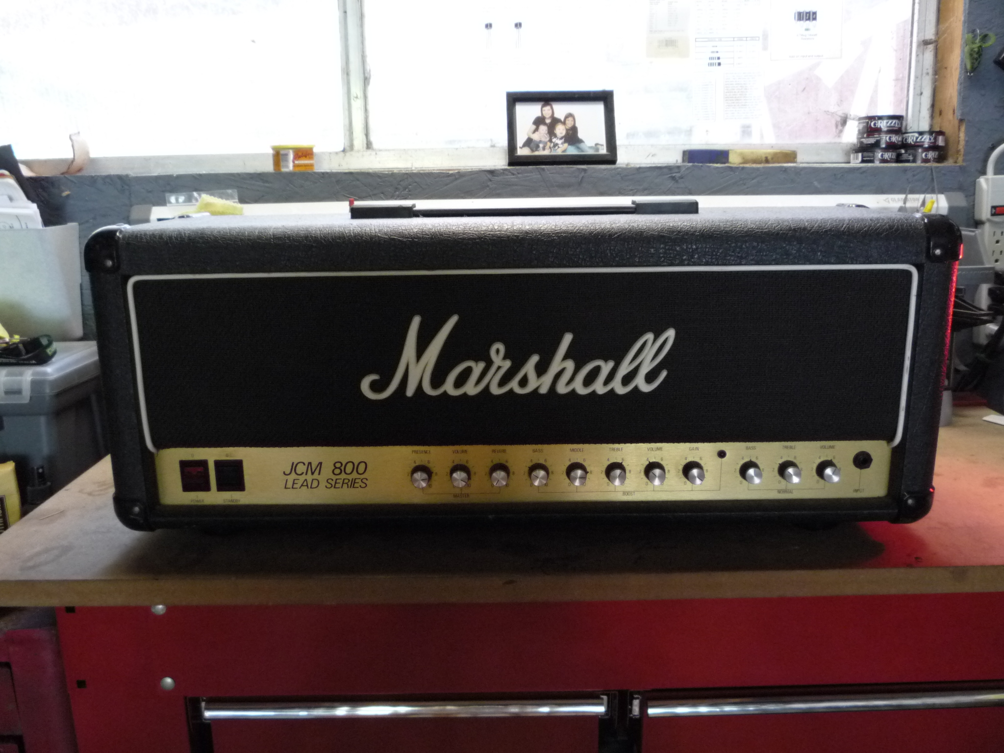 Customer's Marshall JCM800 Model 2205 in for bias adjustment. Flickr Tags: Marshall JCM 800 High Gain 2205 guitar amp head reverb Drake Transformers Channel Switching vintage 2 Channel.